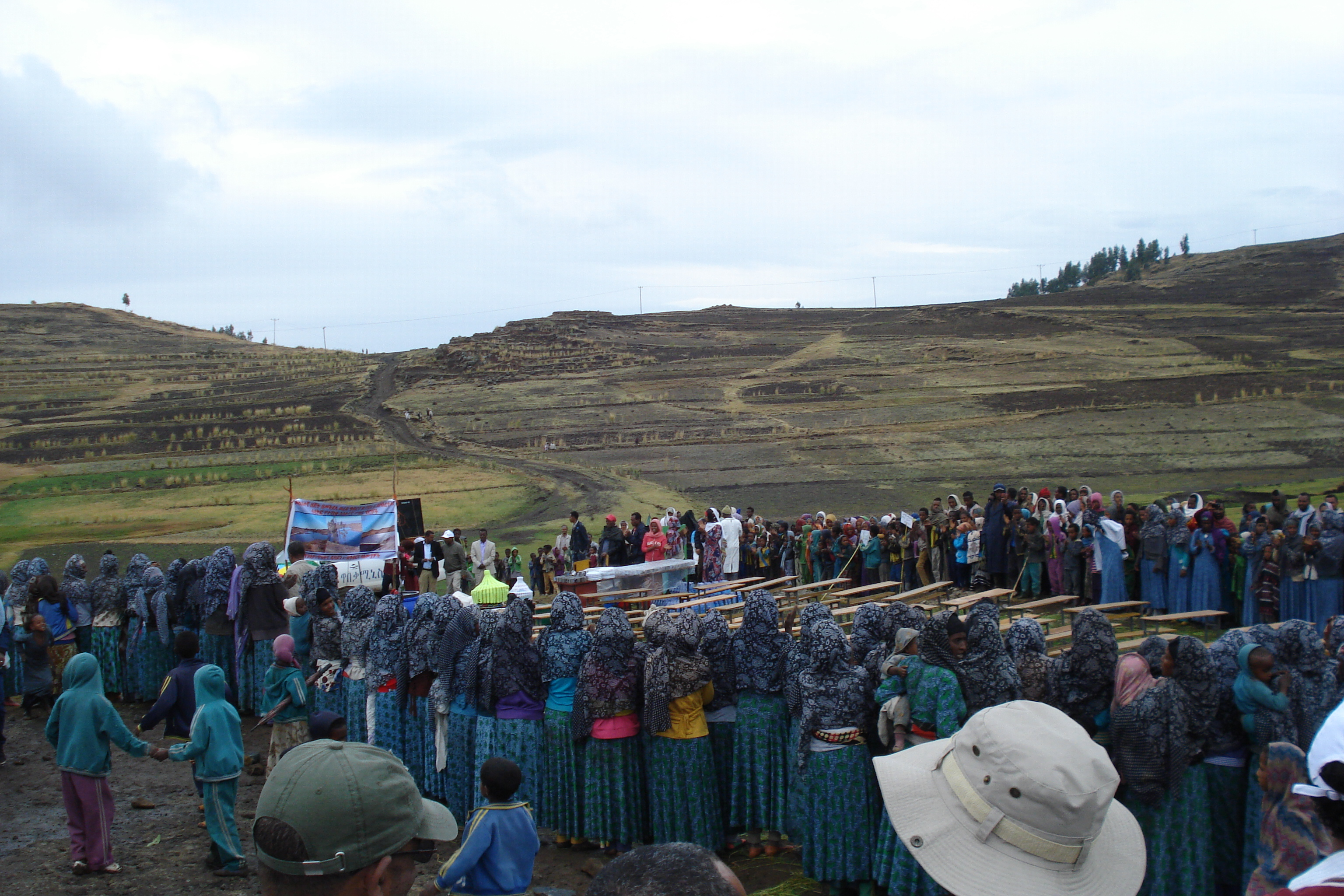 This is an image of "African people at work" from Ethiopia